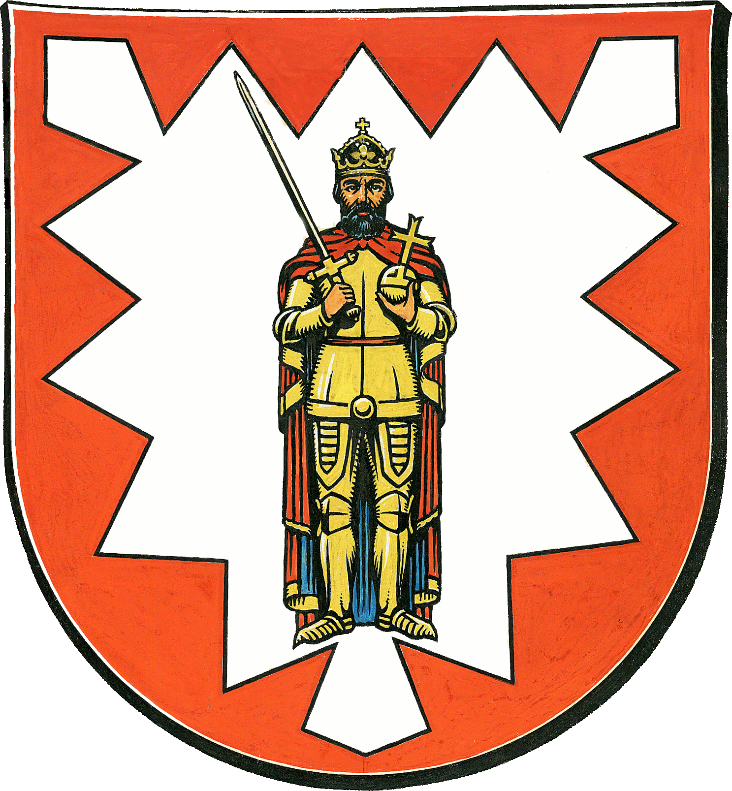 Coat of arms of Wedel Blasonierung: Im Rot das silberne holsteinische Nesselblatt, darin die goldengerüstete, rotgegürtete, schwarzbärtige Gestalt eines Rolands in Vorderansicht mit rotem, blaugefüttertem, zurückgeschlagenem Mantel, auf dem Kopf die goldene mittelalterliche Kaiserkrone, in der rechten Hand ein bloßes silbernes Schwert mit goldenem Knauf an die rechte Schulter gelehnt, in der linken der goldene Reichsapfel.